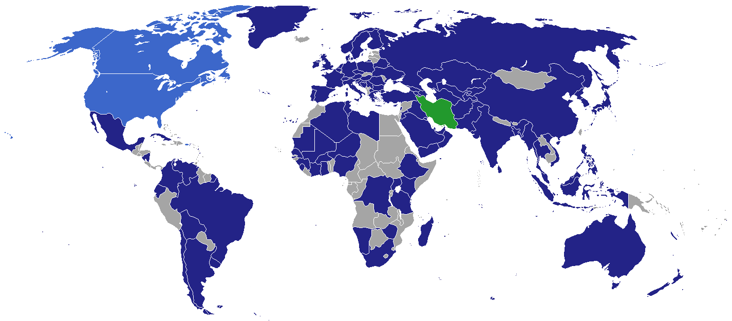 Map of diplomatic missions of Iran Iran Embassy/Consulate-General Interests Section no diplomatic mission